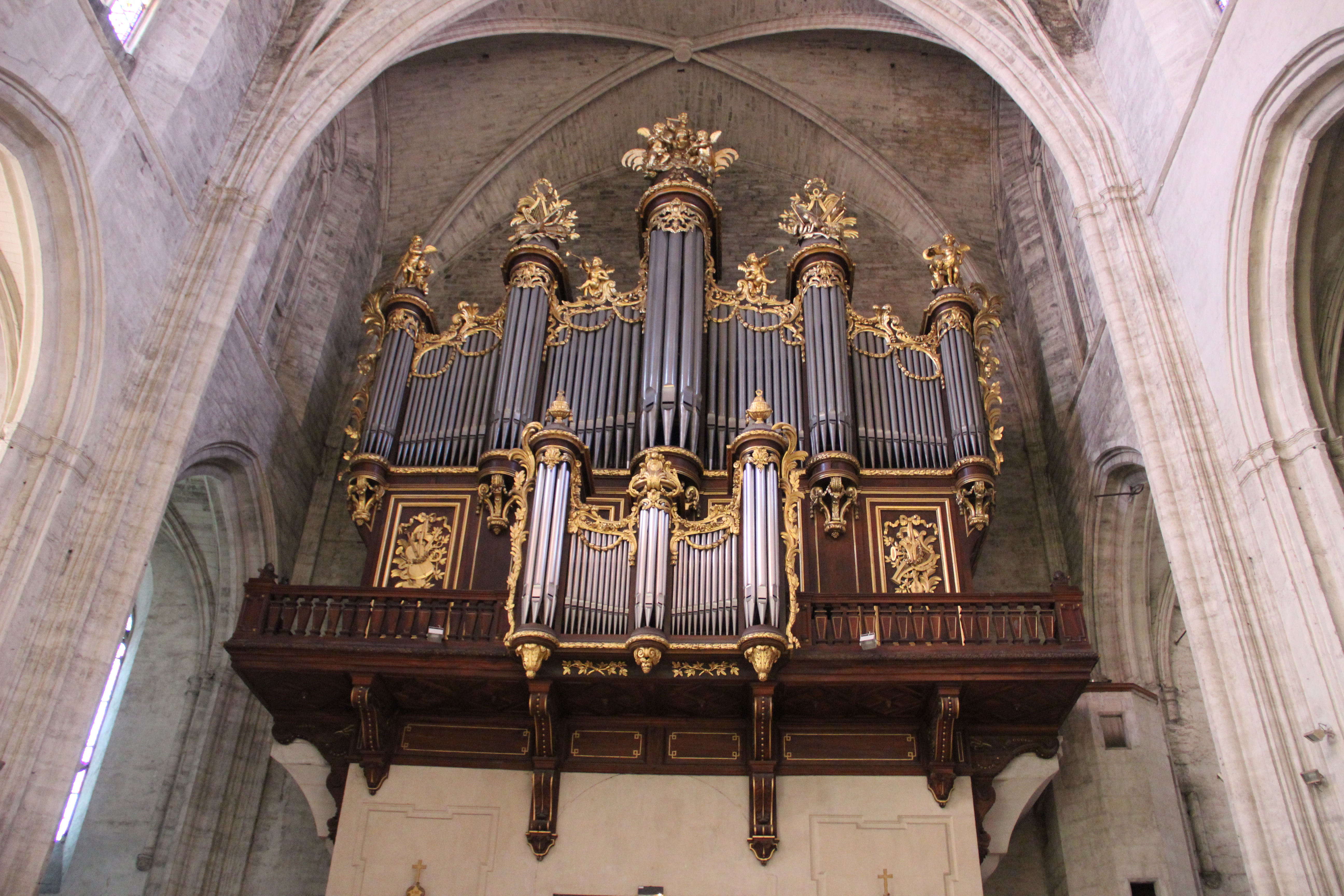 Organ in the Cathédrale Saint-Pierre